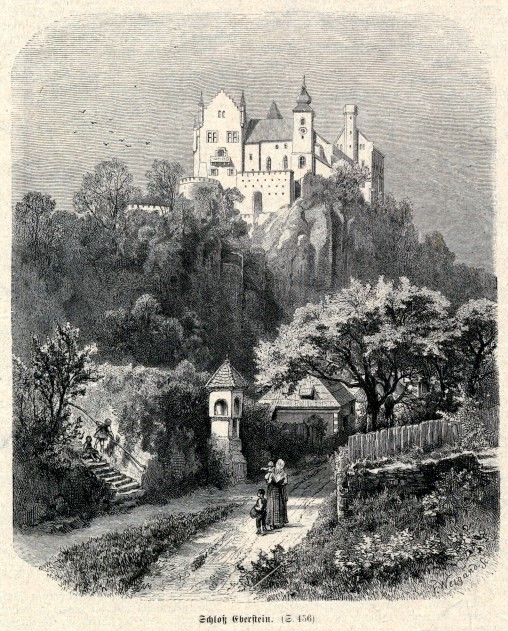 Eberstein castle in the community of Eberstein, district Sankt Veit an der Glan in Carinthia / Austria / European Union.